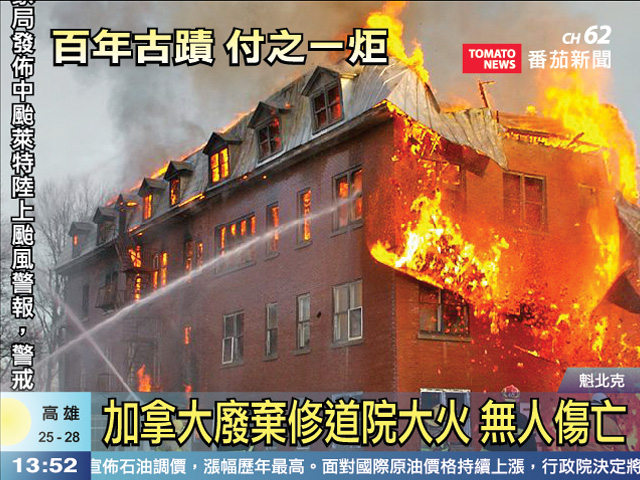 A Taiwan television news program simulation image.